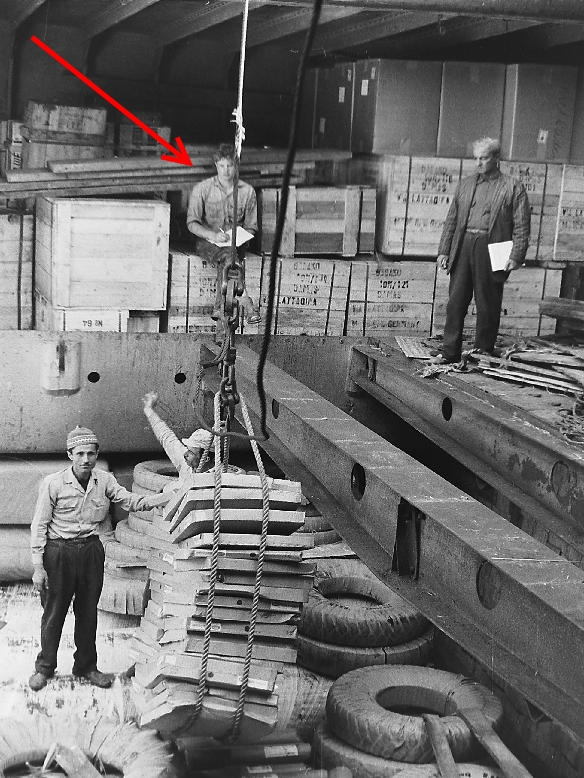 Room guard, Luke guest - MS Ankara - Beirut 1961